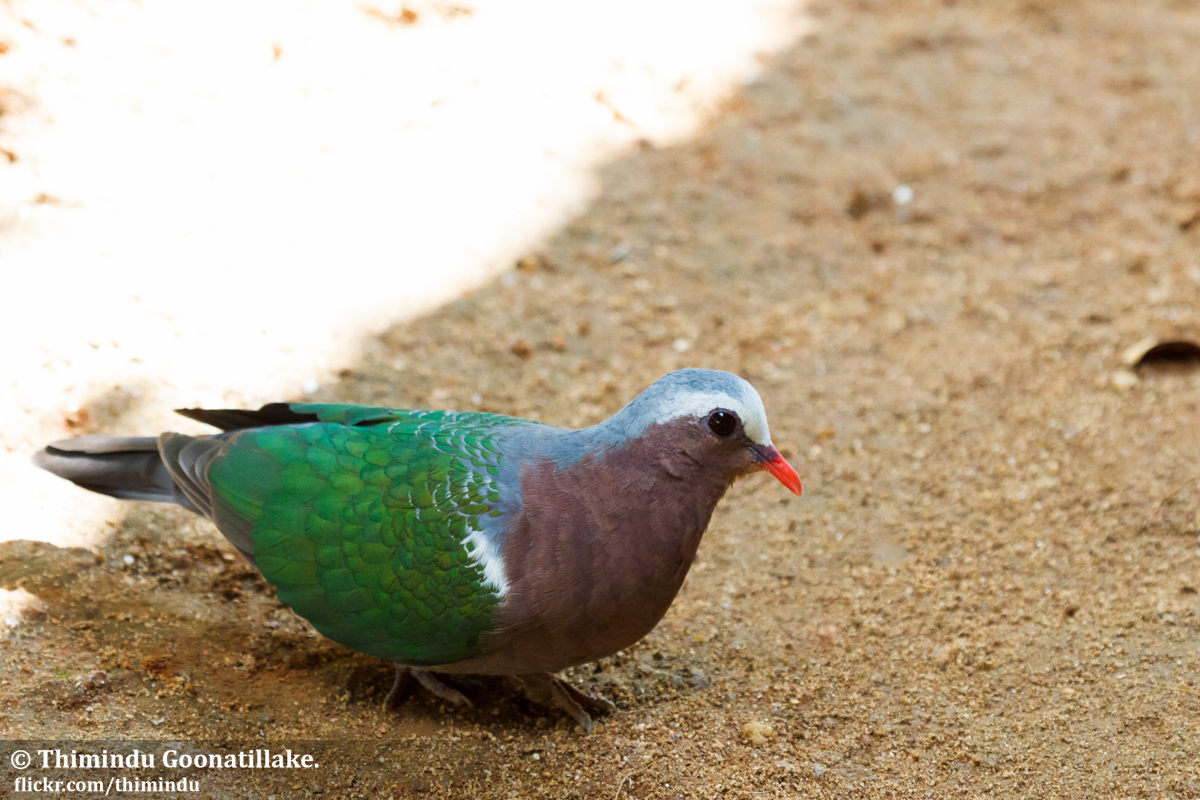 Common Emerald Dove Chalcophaps indica, Sinharaja, Sri Lanka